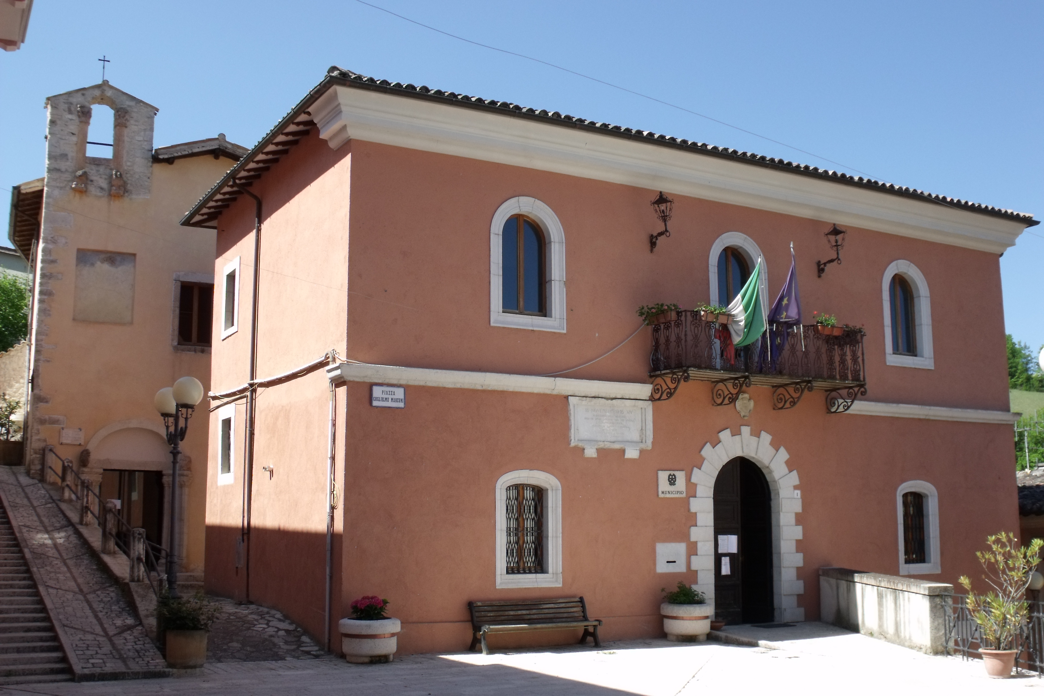 Ex-Church of Santa Caterina and the Townhall in Preci, Province of Perugia, Umbria, Italy